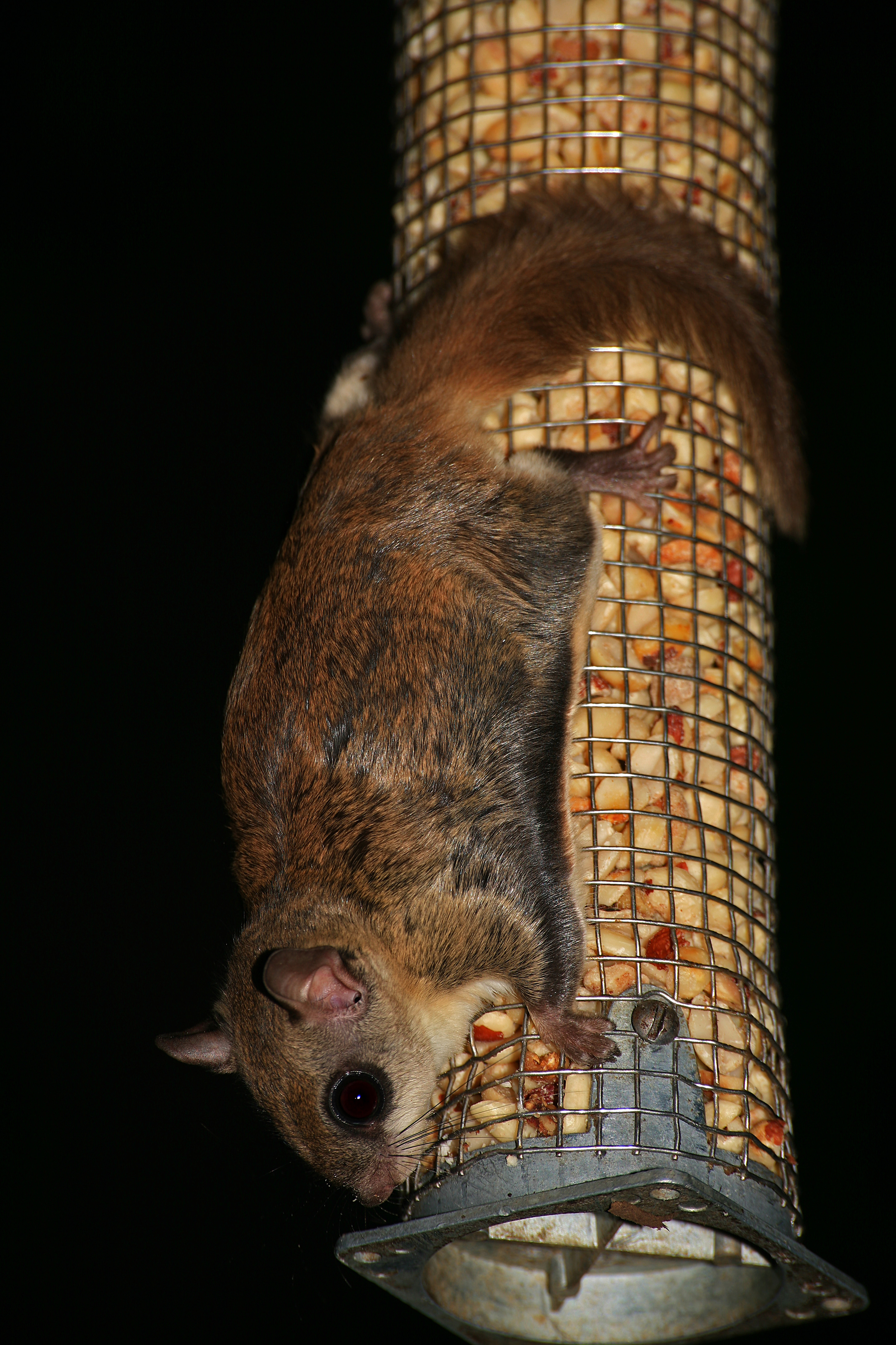 Southern Flying Squirrel (Glaucomys volans) at a bird feeder. Cleveland, USA.